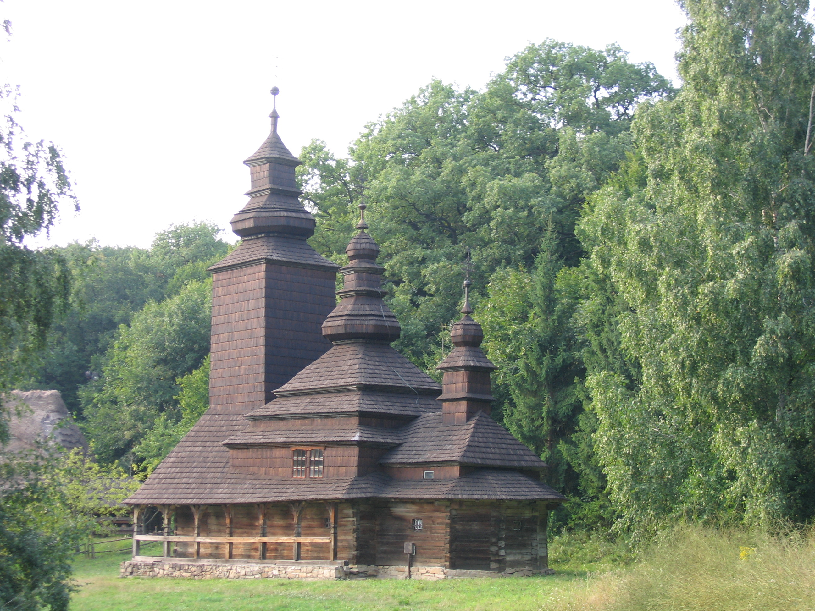 Museum of Ukrainian Folk Architecture and Ethnography in Pyrohiv (near Kiev, Ukraine)